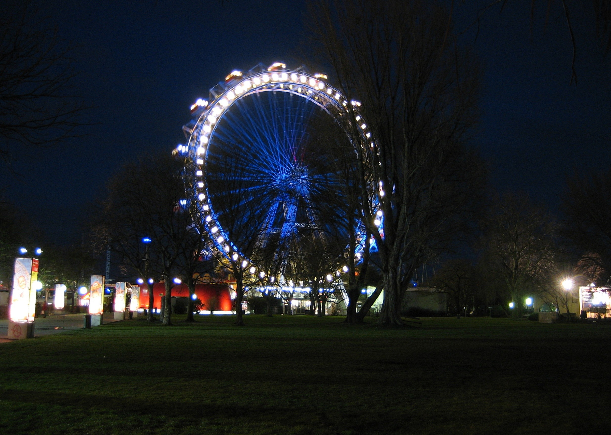 Austria, Vienna, Prater, Wiener Riesenrad